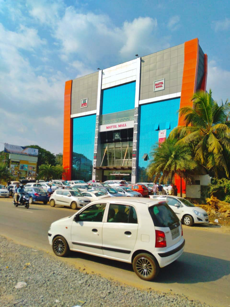 A medium sized mall in the city located at Kizhakkethala, Downhill, Malappuram. Houses 4 Screen multiplex from PVS as the anchor brand apart from several stores.